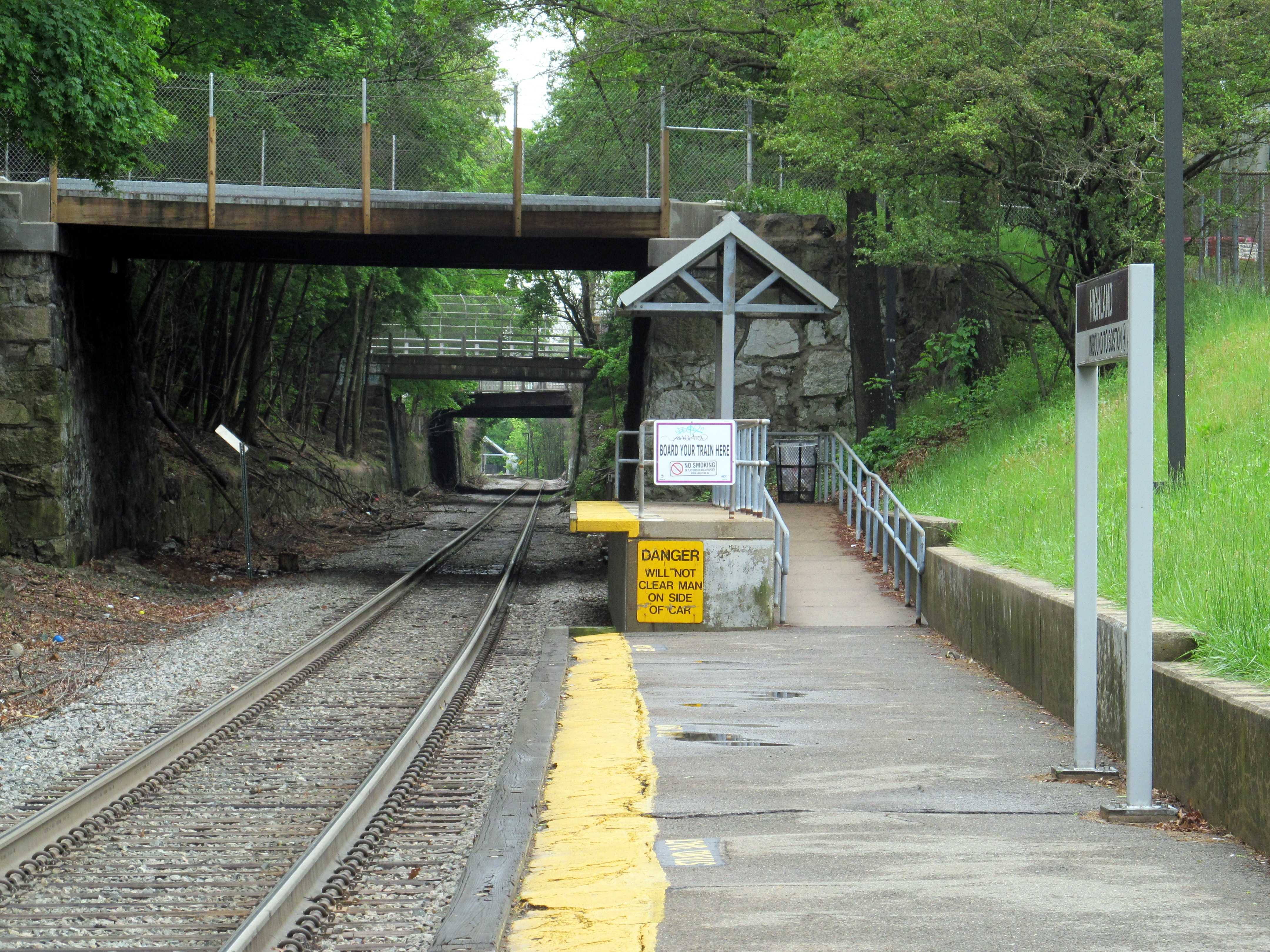 Mini-high platform at Highland station, looking outbound. West Roxbury station is visible in the distance.